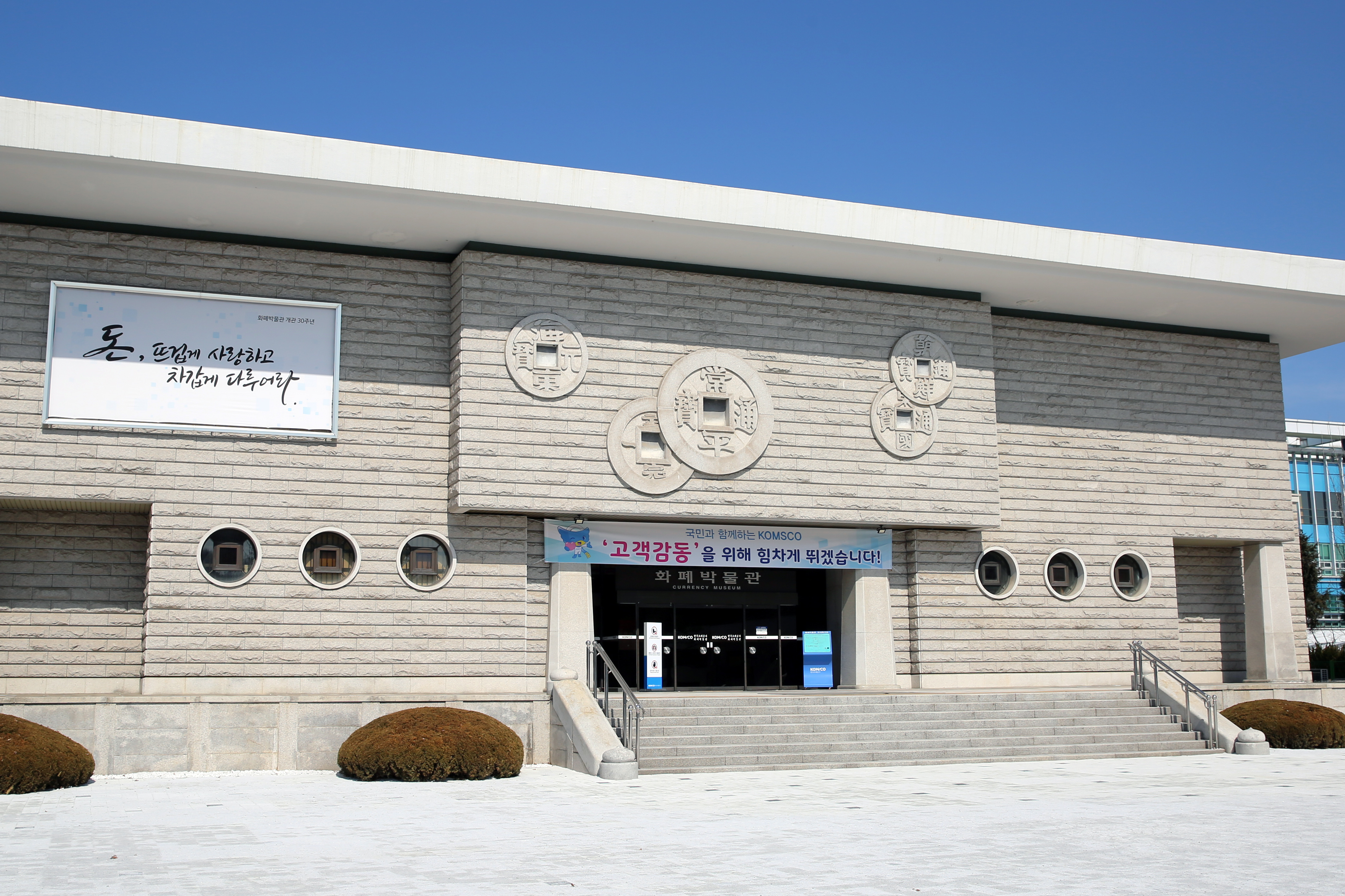 The Currency Museum in South Korea